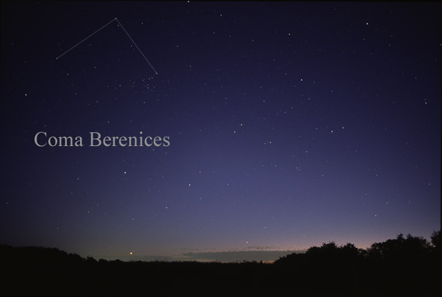 Photography of the constellation Coma Berenices, Berenice's Hair